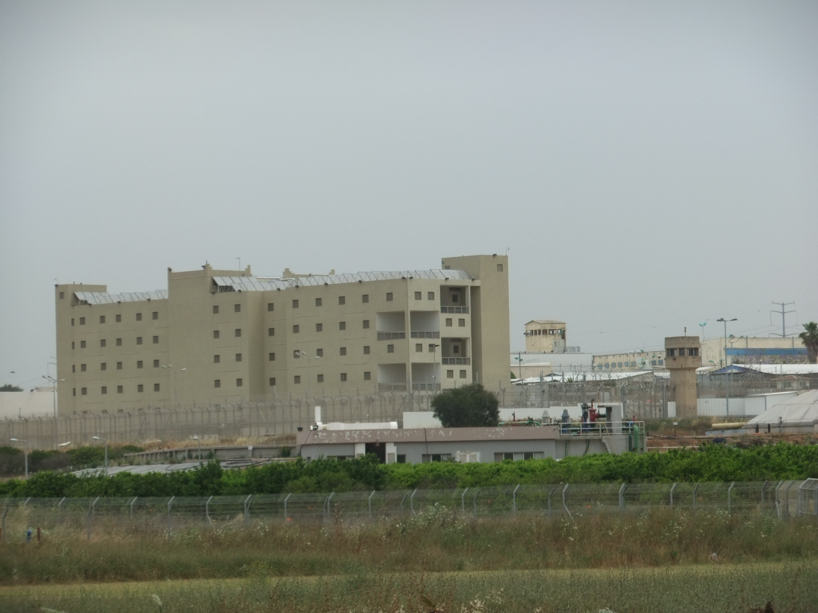 Hadarim prison complex from the south